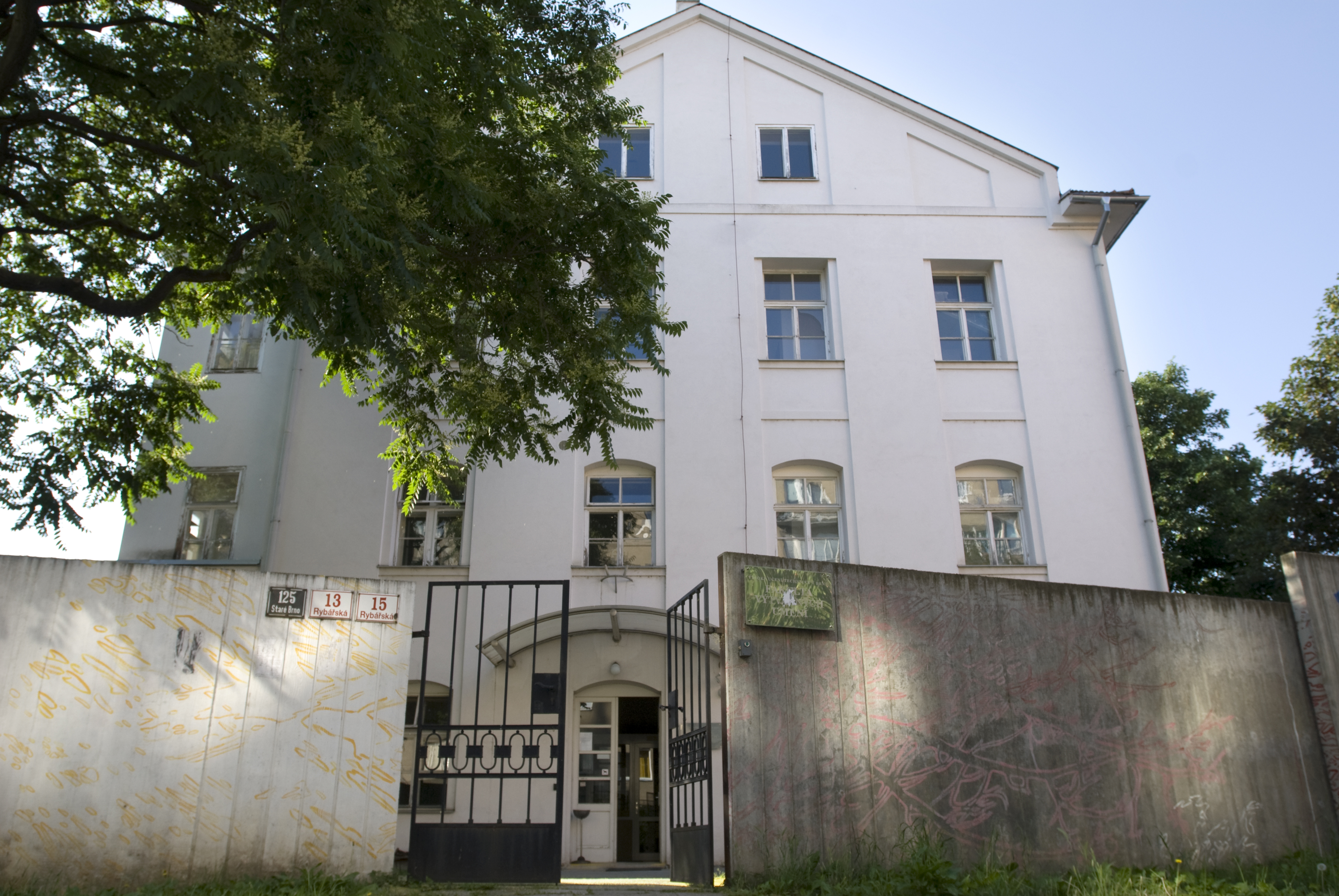 Faculty of Fine Arts BUT